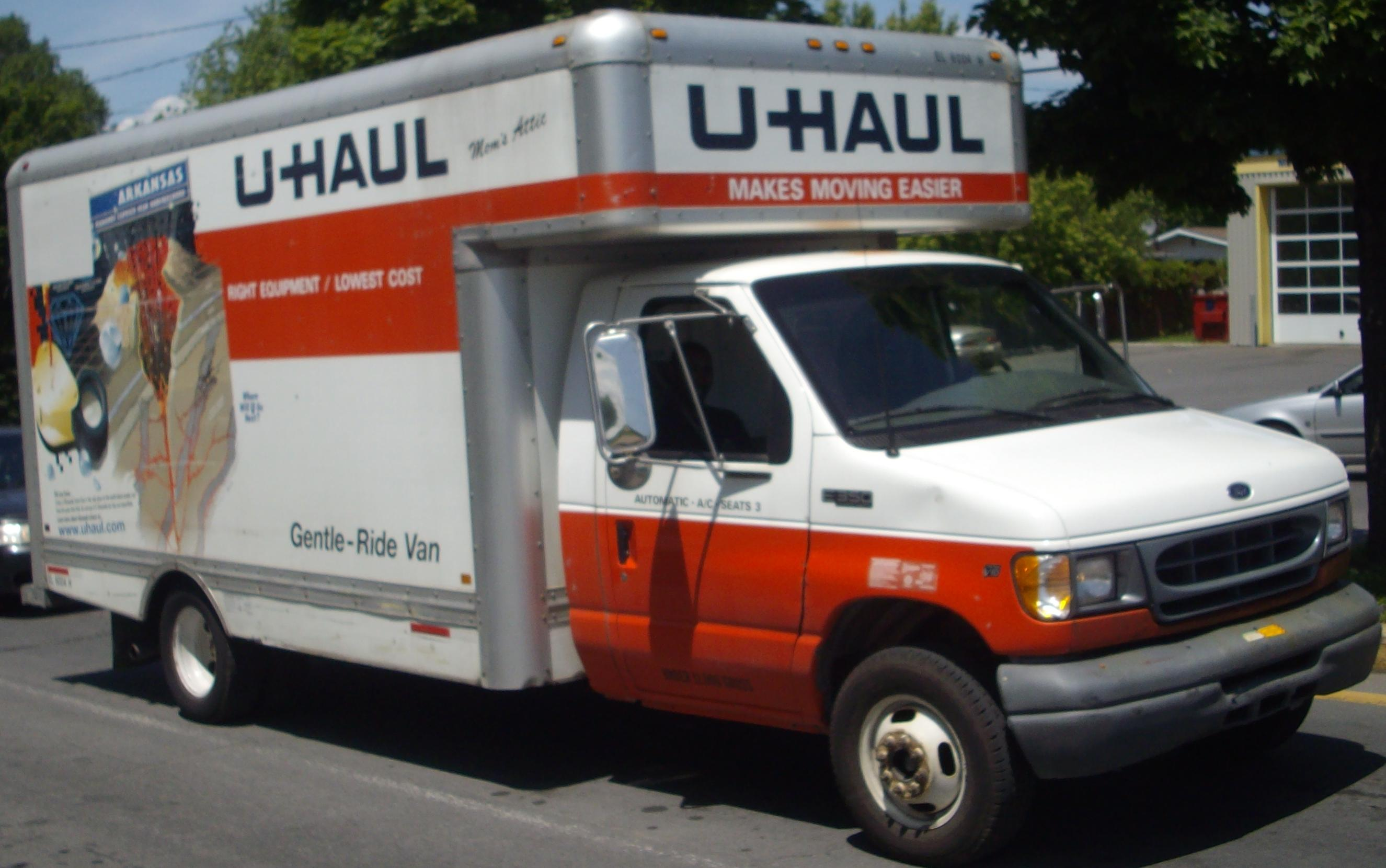 Ford E-350 photographed in Châteauguay, Quebec, Canada.